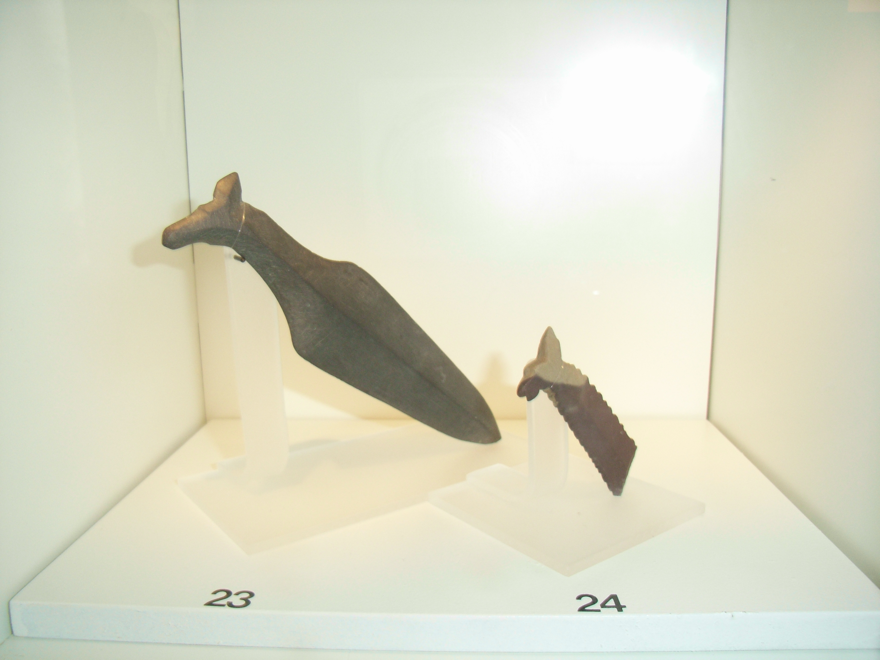 Slate knife and Slate knife handle 4000-1700BC.Lappland and Uppland, Sweden